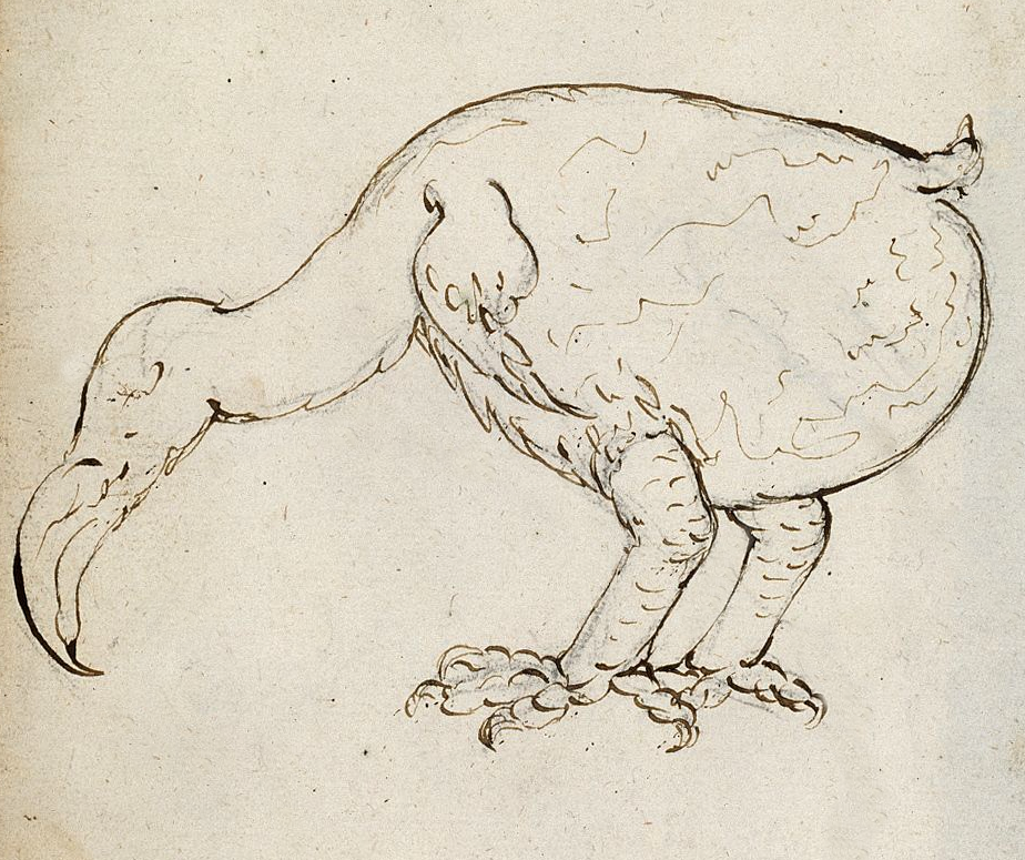 Drawing of a dodo from the journal of the ship "de Gelderland"